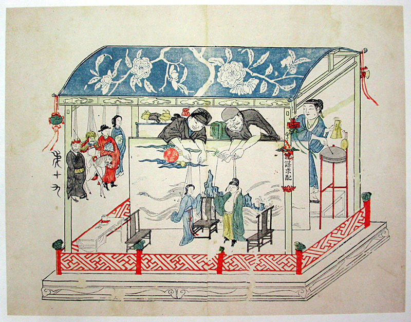 The marriage plot, from Min Qiji’s album „The Romance of the Western Chamber“.